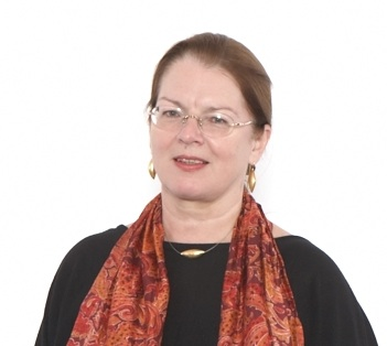 Hanna Kiper